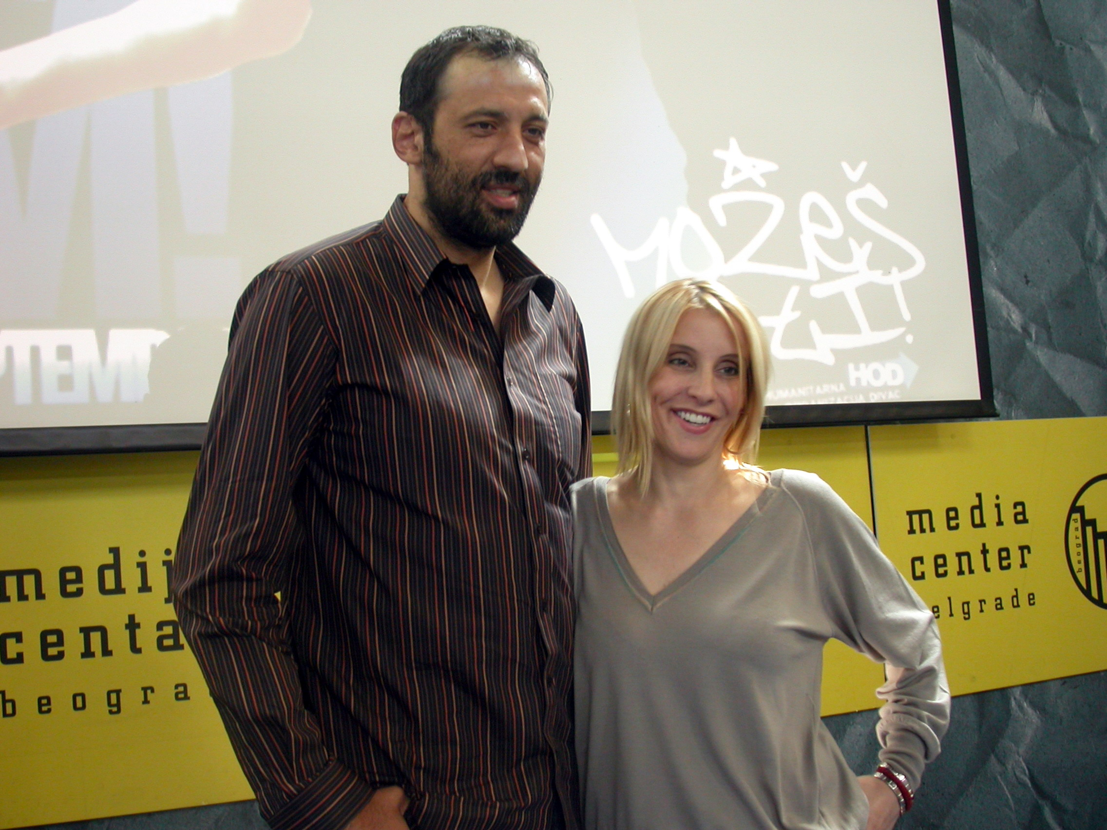 Vlade & Snežana Divac